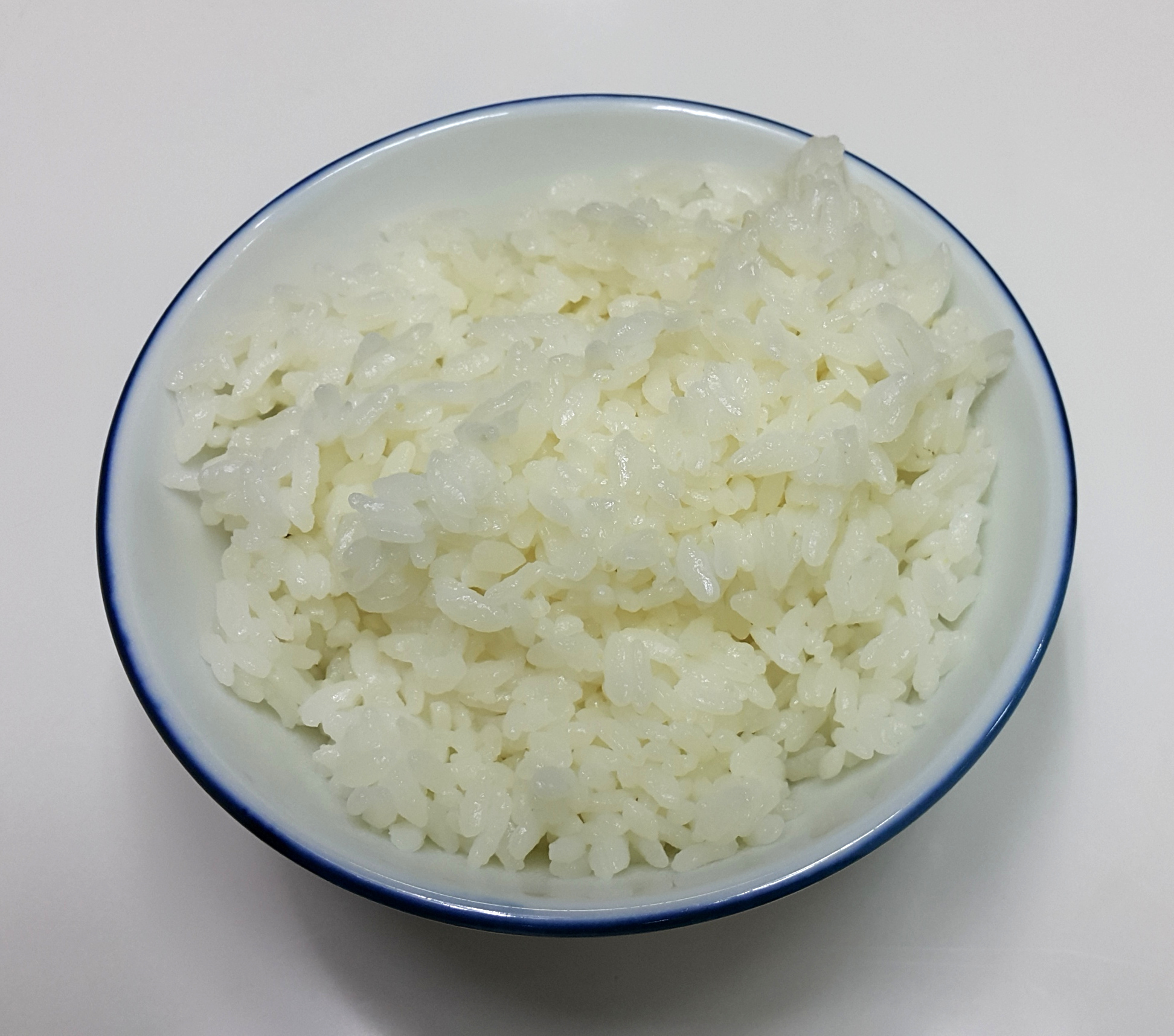 A bowl of cooked white rice. The bowl is white with blue trim. It is sitting on a white table.